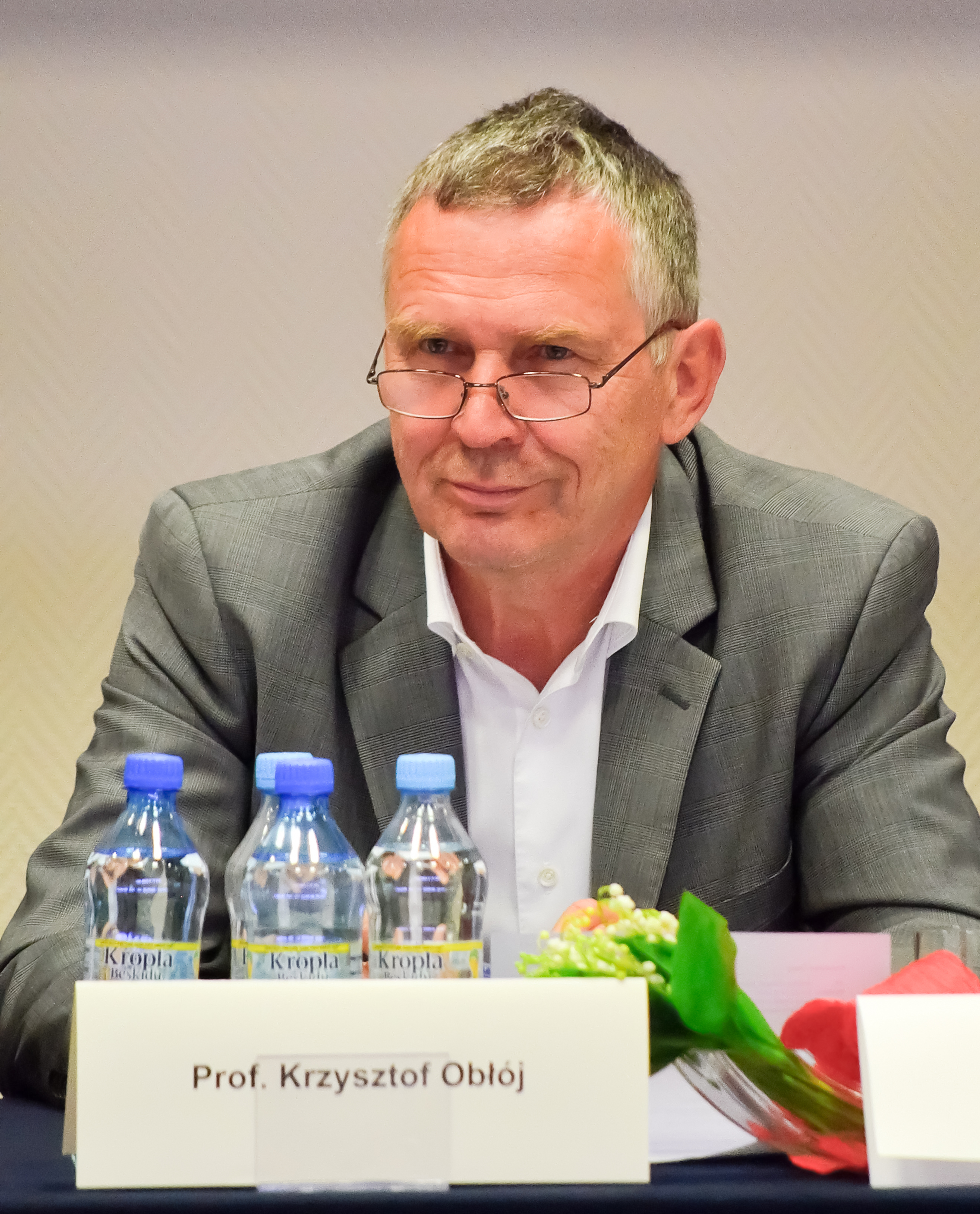 Professor Krzysztof Obłoj. Conference "A quarter-centry of Polish transformation, and what next?" at Koźmiński University in Warsaw